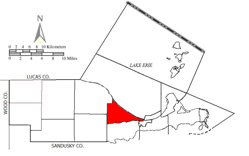 Made by US Census and modified by me